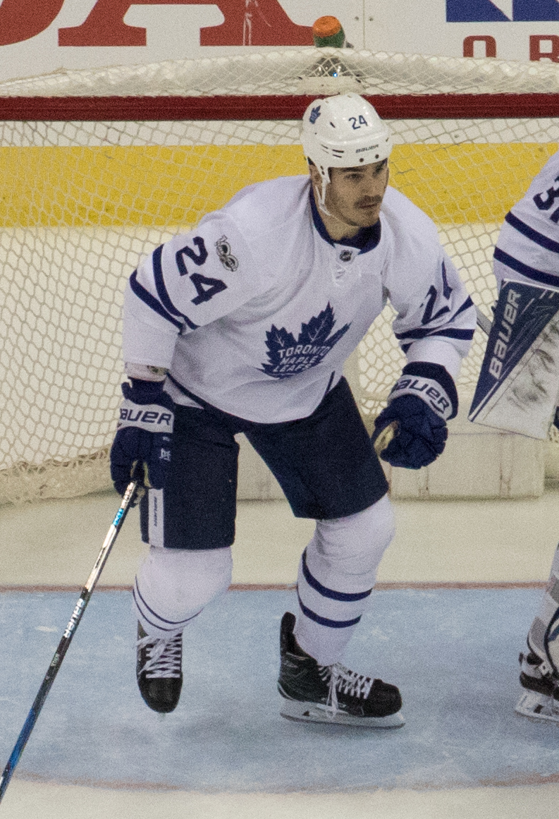 Brian Boyle in a playoff game with the Toronto Maple Leafs on April 21, 2017.